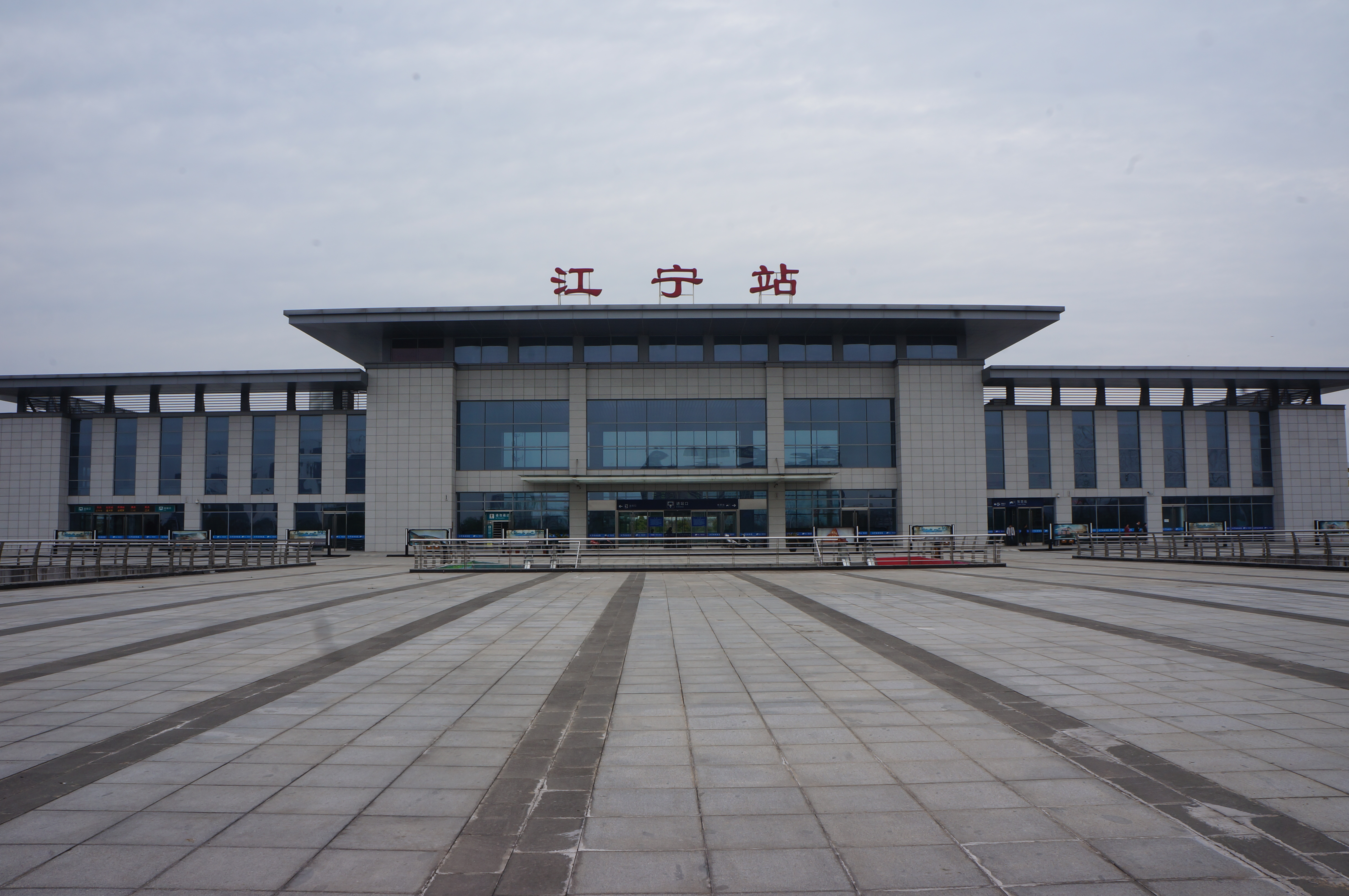 201704 Jiangning Station